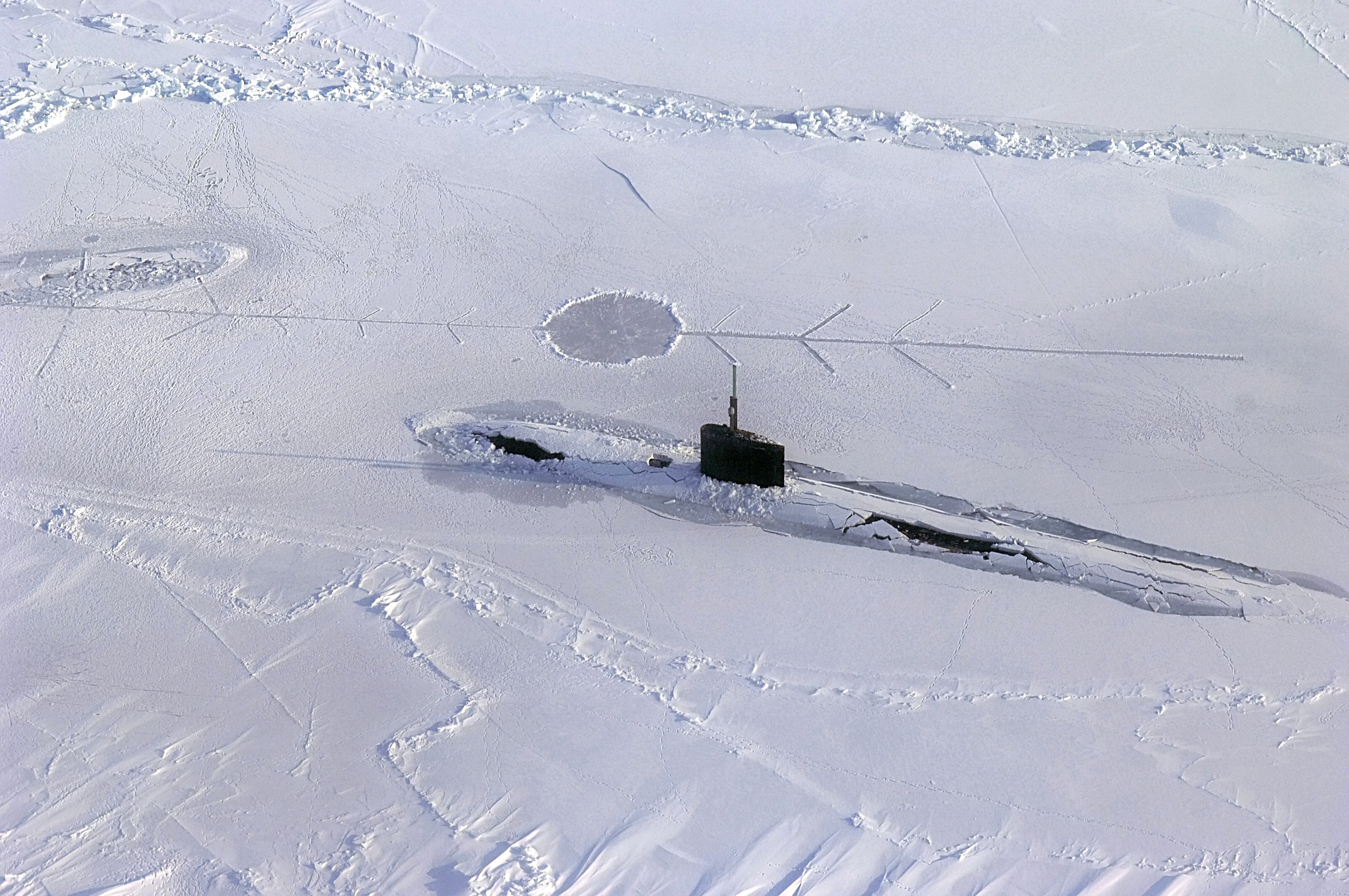 ARCTIC OCEAN (March 18, 2007) - Los Angeles-class fast attack submarine USS Alexandria (SSN 757) is submerged after surfacing through two feet of ice during ICEX-07, a U.S. Navy and Royal Navy exercise conducted on and under a drifting ice floe about 180 nautical miles off the north coast of Alaska. U.S. Navy photo by Chief Mass Communication Specialist Shawn P. Eklund (RELEASED) Snow angels by STS3 Williams and SN Miller.